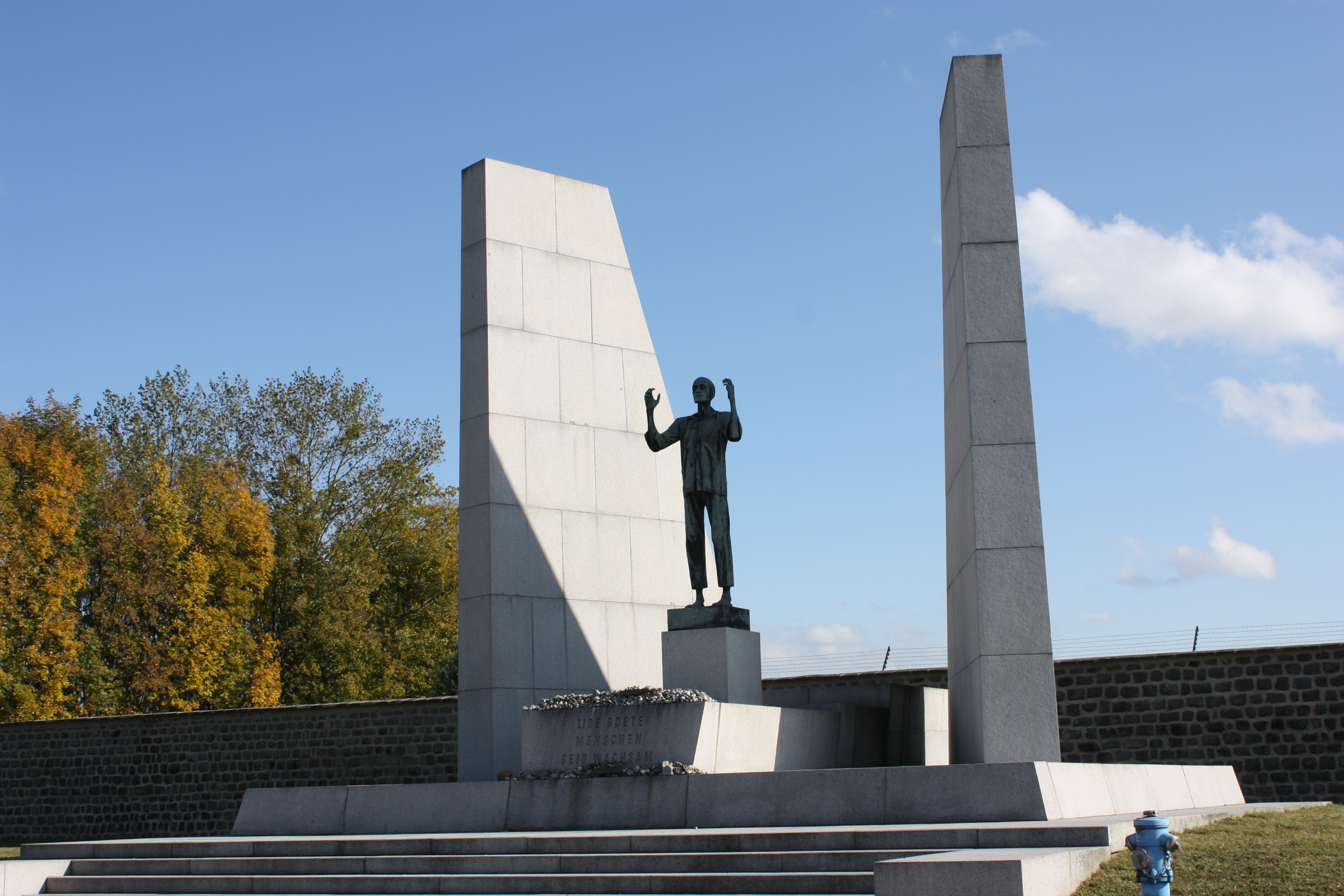 Czechoslovak monument in Concentration camp Mauthausen by sculptor Antonín Nykl - himself former prisoner in Mauthausen.